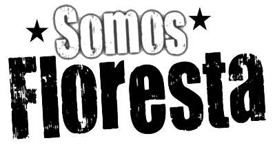 Somos Floresta is a Argentine television program operated by All Boys.